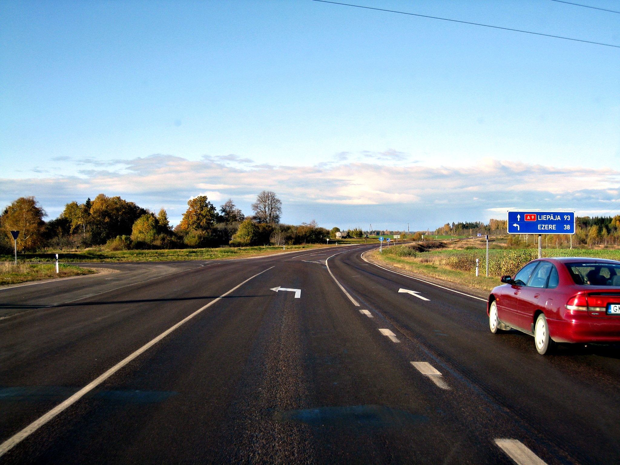 Latvian state road A9